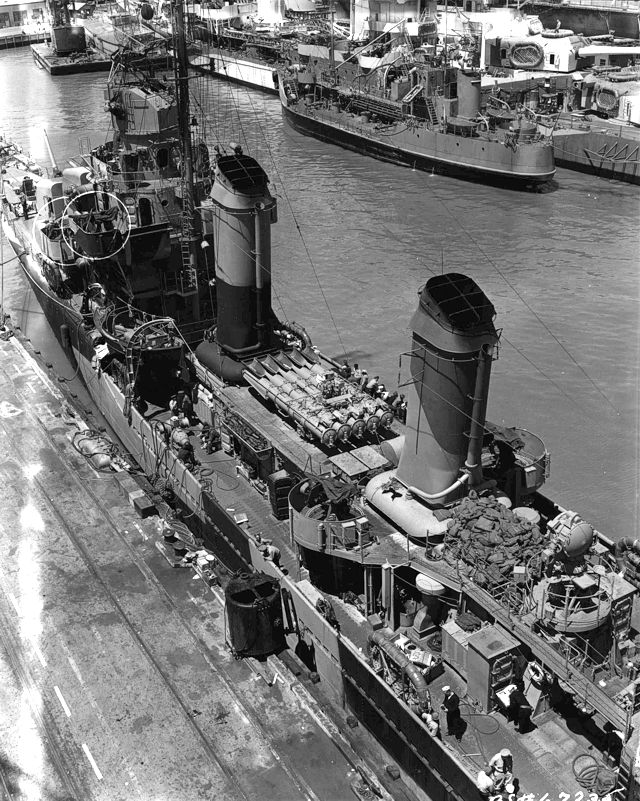 Benson-class destroyer USS Woodworth (DD-460) of the United States Navy in the World War II era. The ship was named after navy officer Selim E. Woodworth. From 1951 to 1971 it served as Artigilere in the Italian navy.